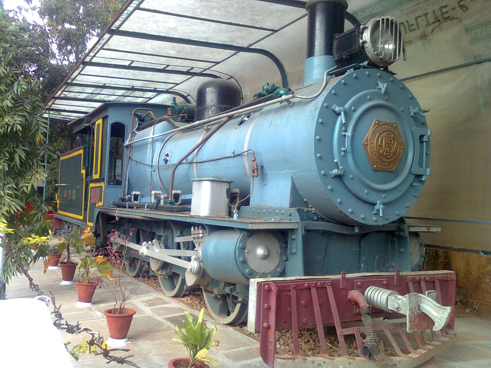 Visvesvaraya_Industrial_ &_Technological_Museum_Banglore